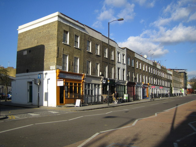 King's Cross: Caledonian Road, N1 The terraced housing is on the A5203 Caledonian Road at its junction with Northdown Street. The ground floor premises on the corner houses the Caledonian Internet Cafe. Give us a wave!